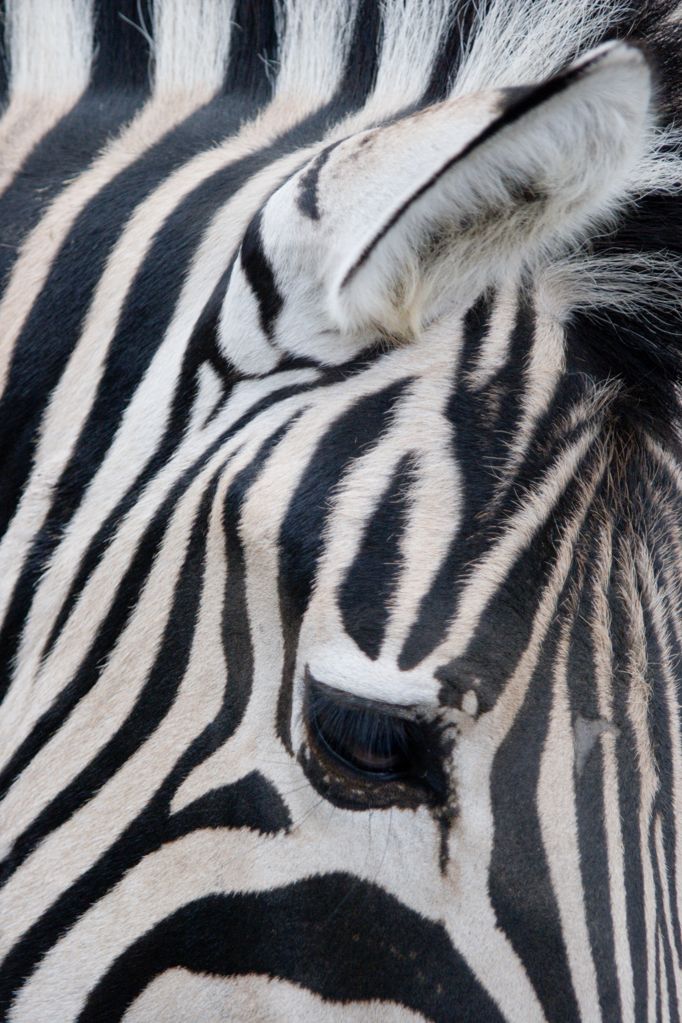 Barcode horse